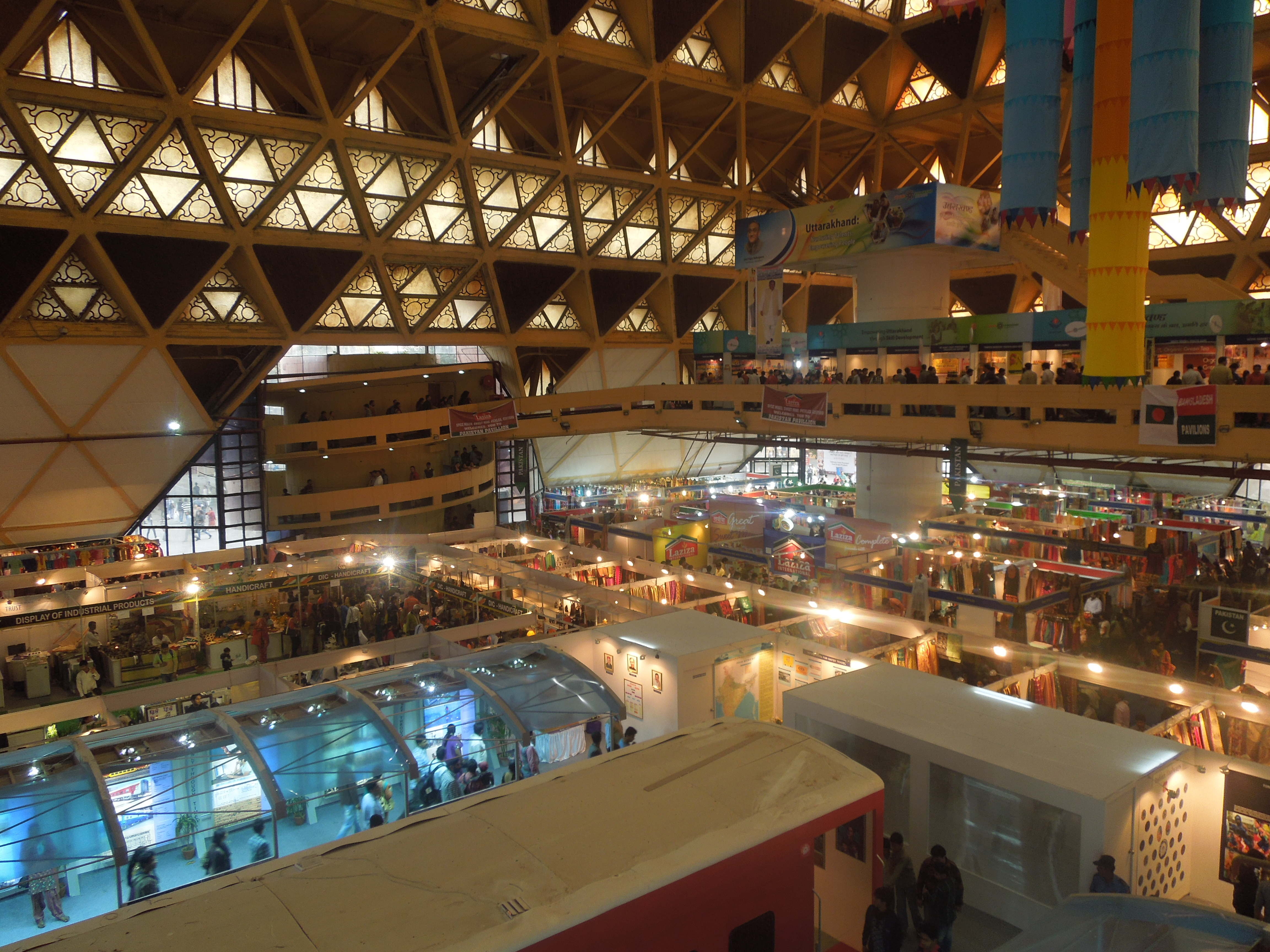 Inner View of Hall-6 @ India International Trade Fair 2012